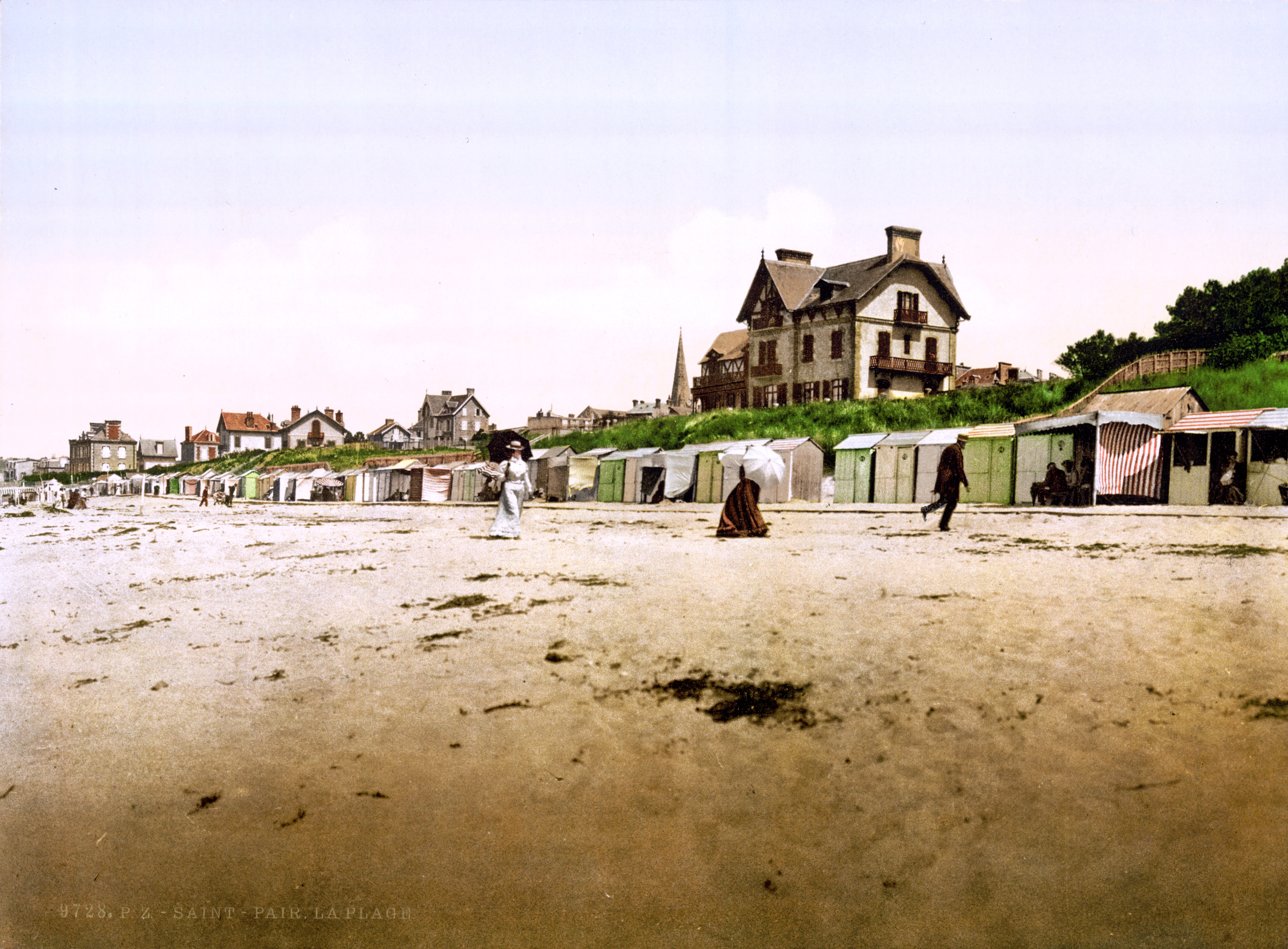 Photochrom print by Photoglob Zürich, between 1890 and 1900. From the Photochrom Prints Collection at the Library of Congress More photochroms from France | More photochrom prints [PD] This picture is in the public domain